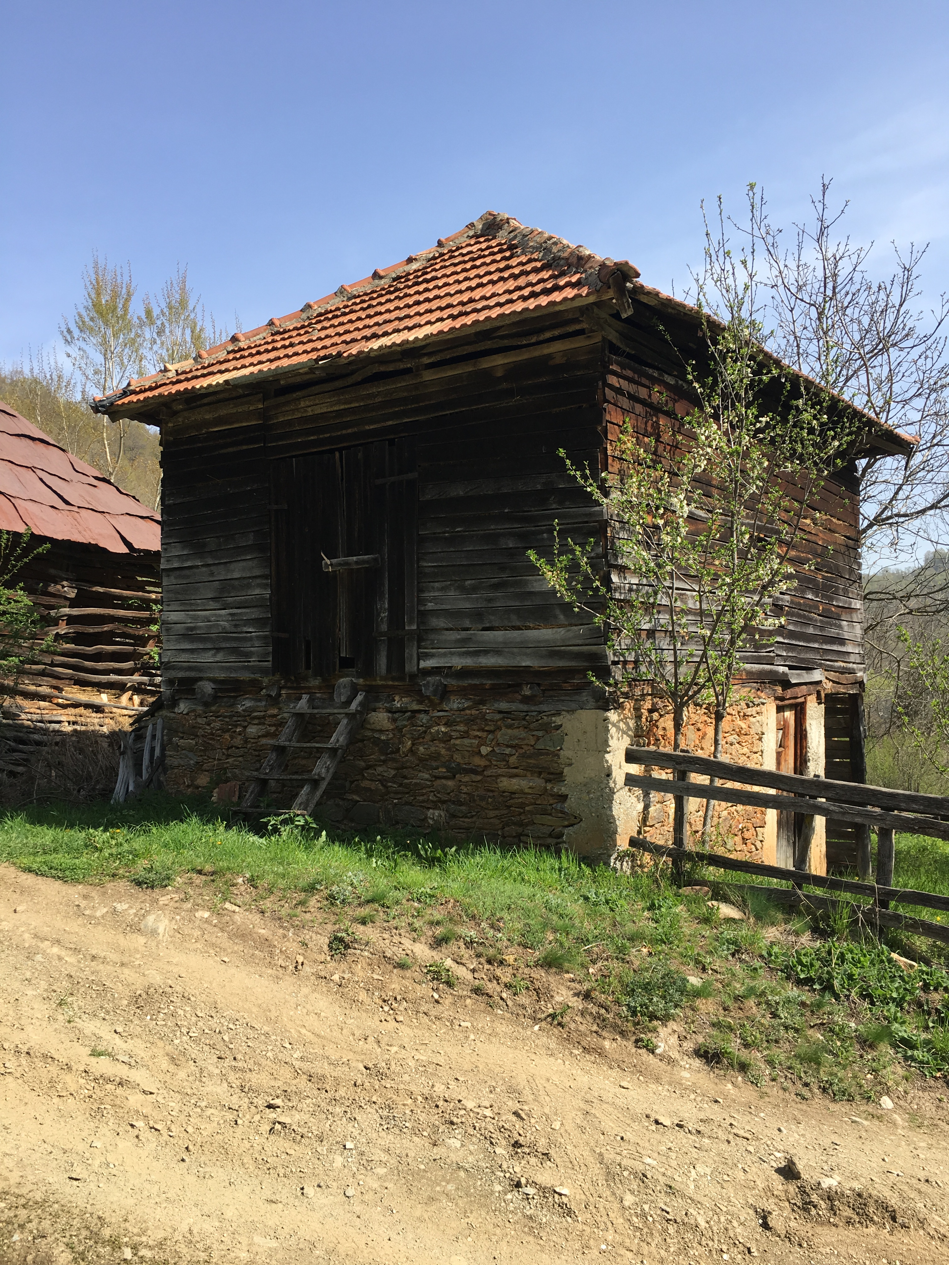 A granary in the village of Kostur